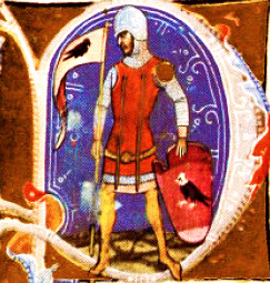 Miniature of Pat